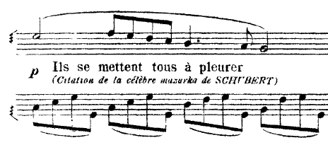 part of second movement of Erik Saties Embryons desséchés